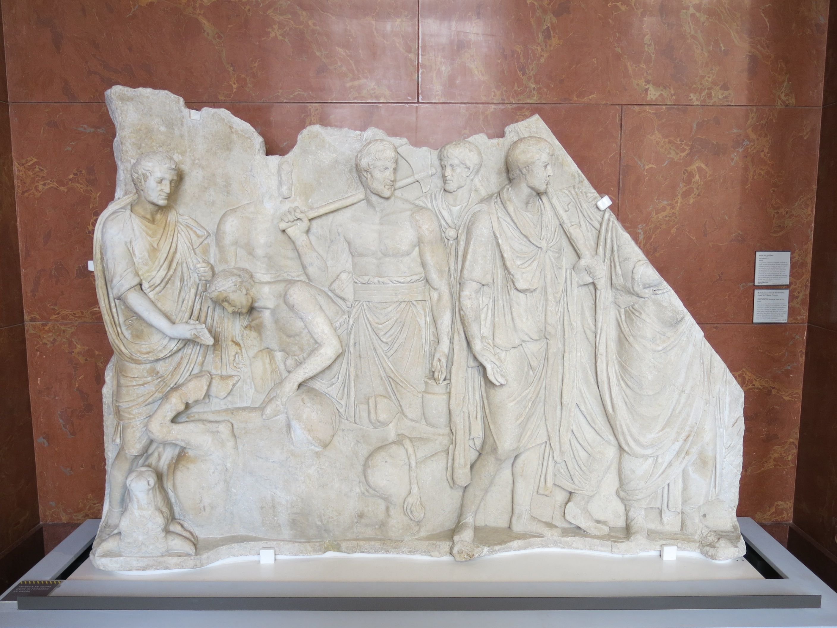 Relief with sign of divination. Found in Roma near the Trajan's forum in 1540. 100-125 AC. Louvre museum (Paris, France).